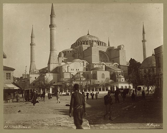 Exterior view of Ayasofya Camii (mosque), formerly the Church of Hagia Sophia.